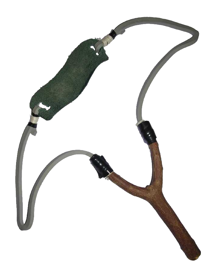 Slingshot, made (a little too fast) by spanish born, who learnt to hunt with this in Marocco. Roots of this kind of Slingshot are not clear, possible from Spain or Marocco